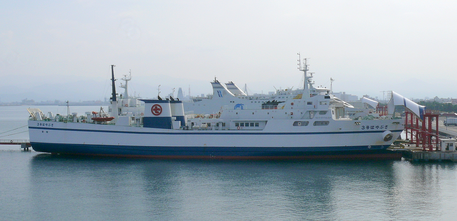 Seikan Ferry 3gou-Hayabusa in Mutu Bay(Japan). IMO number: Callsign